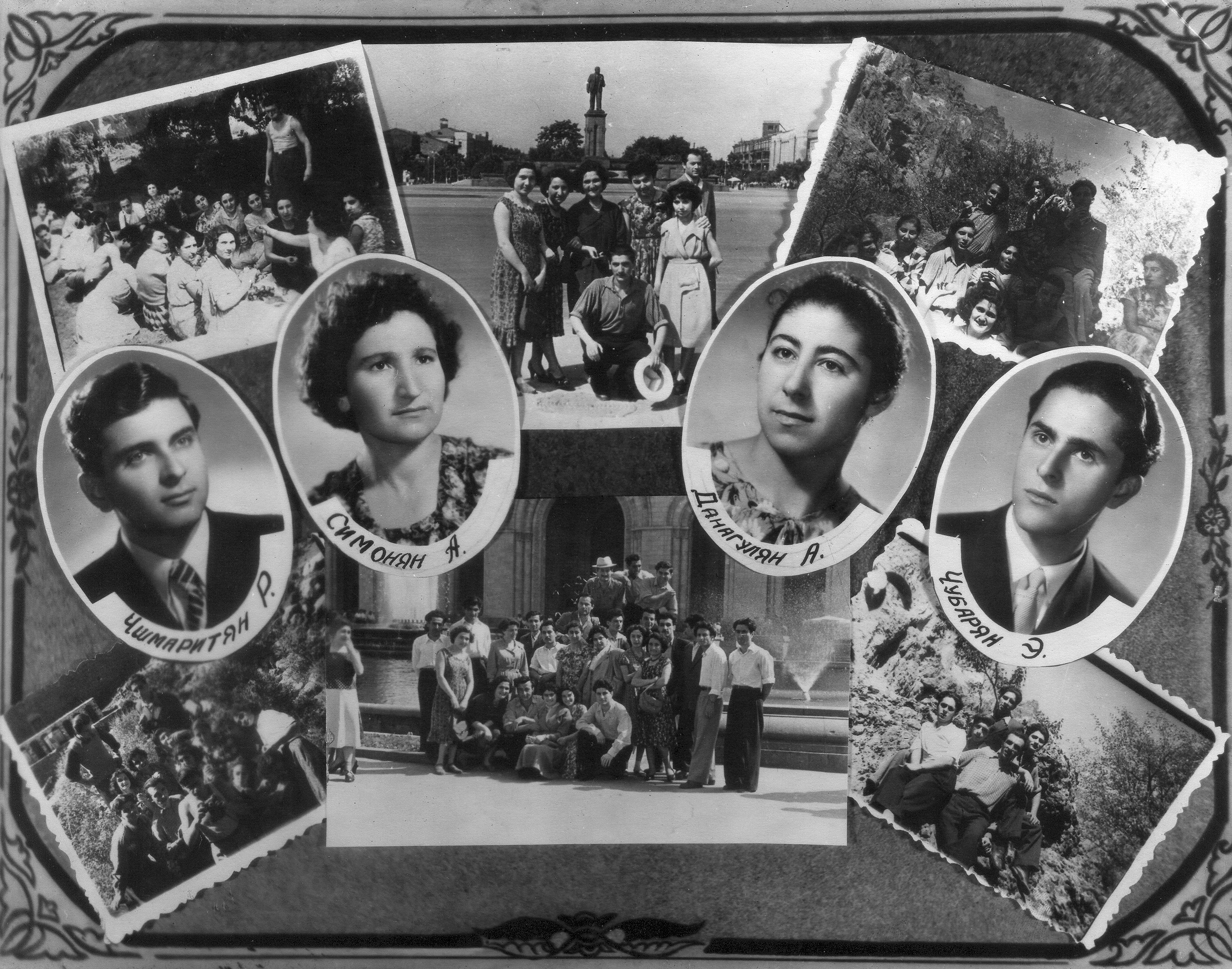 Edvard Chubaryan 75th Birthday, 05 May 2011 05, No. 32